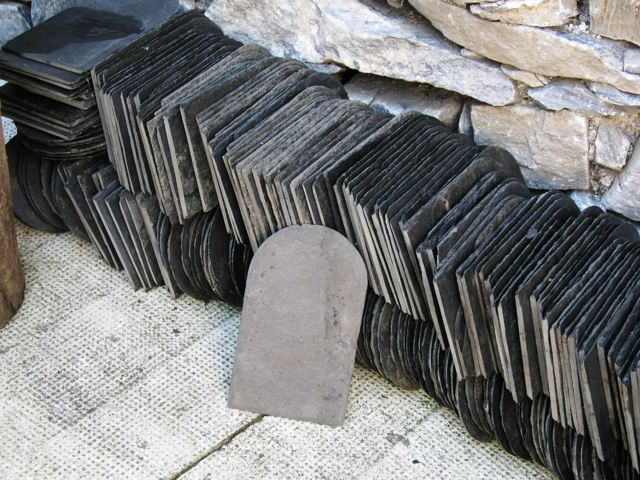 Pizarra plates, (north part of) Spain.